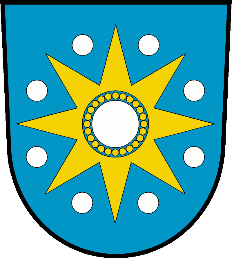 Coat of Arms of Perleberg